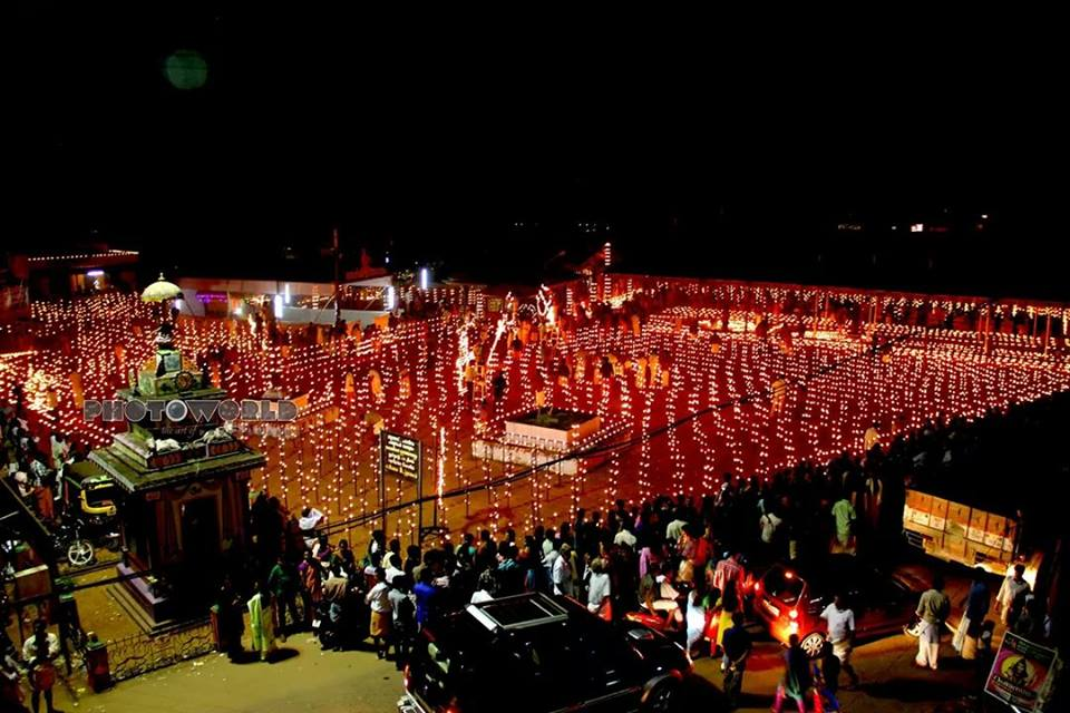 Lakshadeepam [one lakh lamps or vilakk] being lighted at padanilam temple ground during chirapp mahotsavam conducted by Thathamunna kara of the temple.